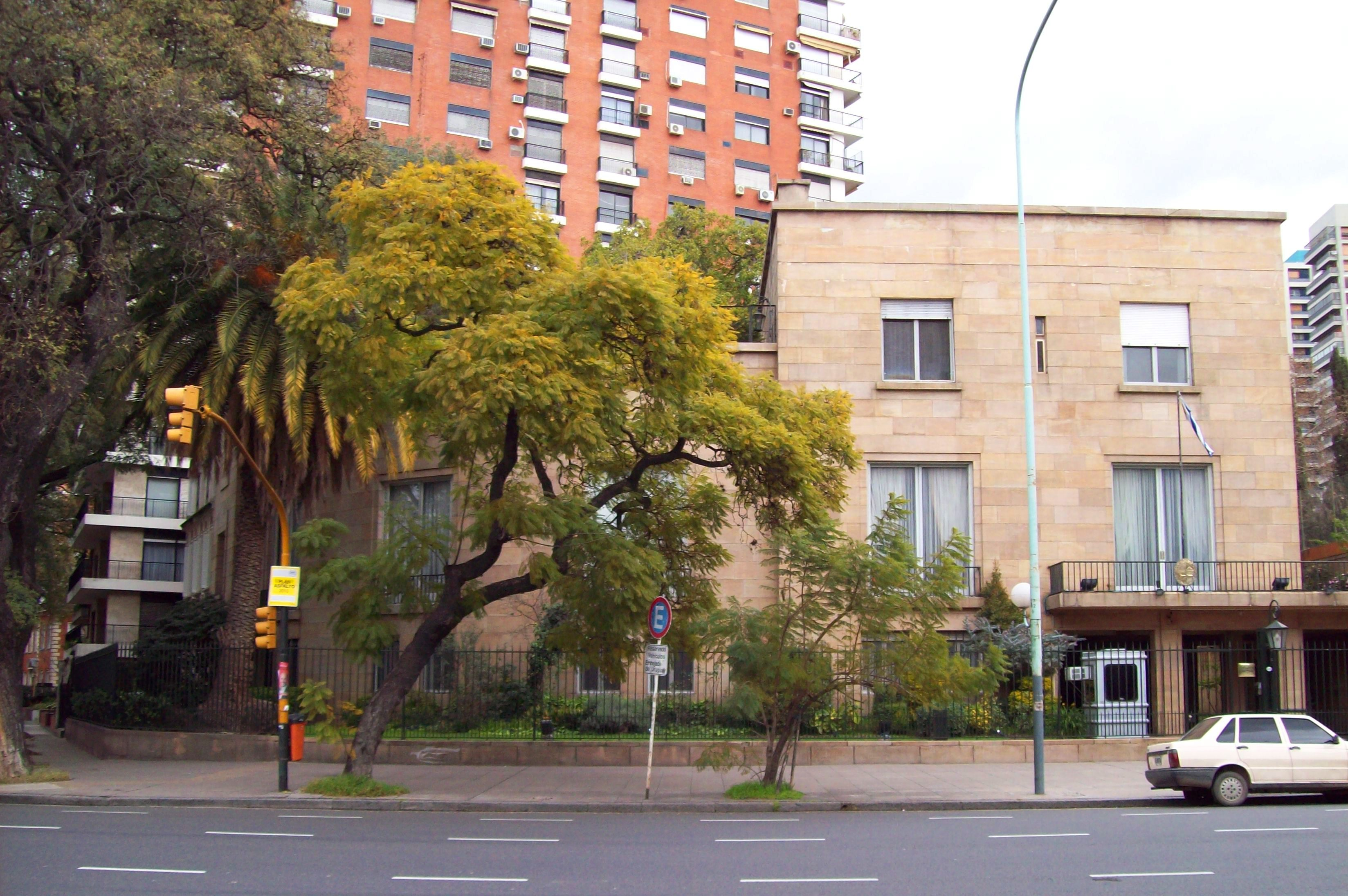 The official residence of the Ambassador of Uruguay to Argentina, in Buenos Aires. Designed by Jorge Kálnay as the Méndez Gonçalves residence, the house was built in 1932.